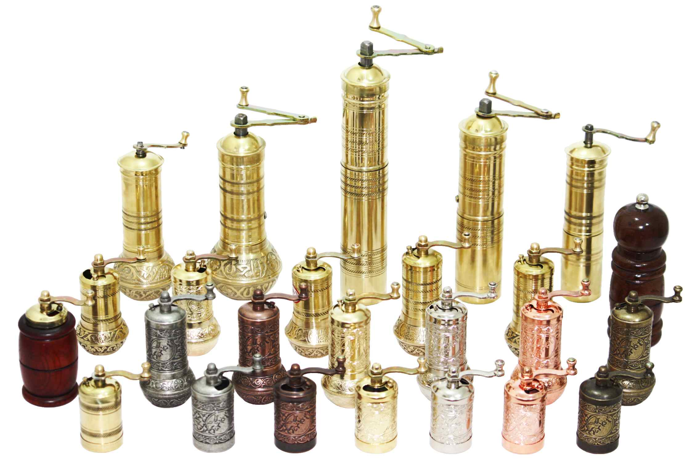 Brass Turkish Coffee and Pepper Grinders